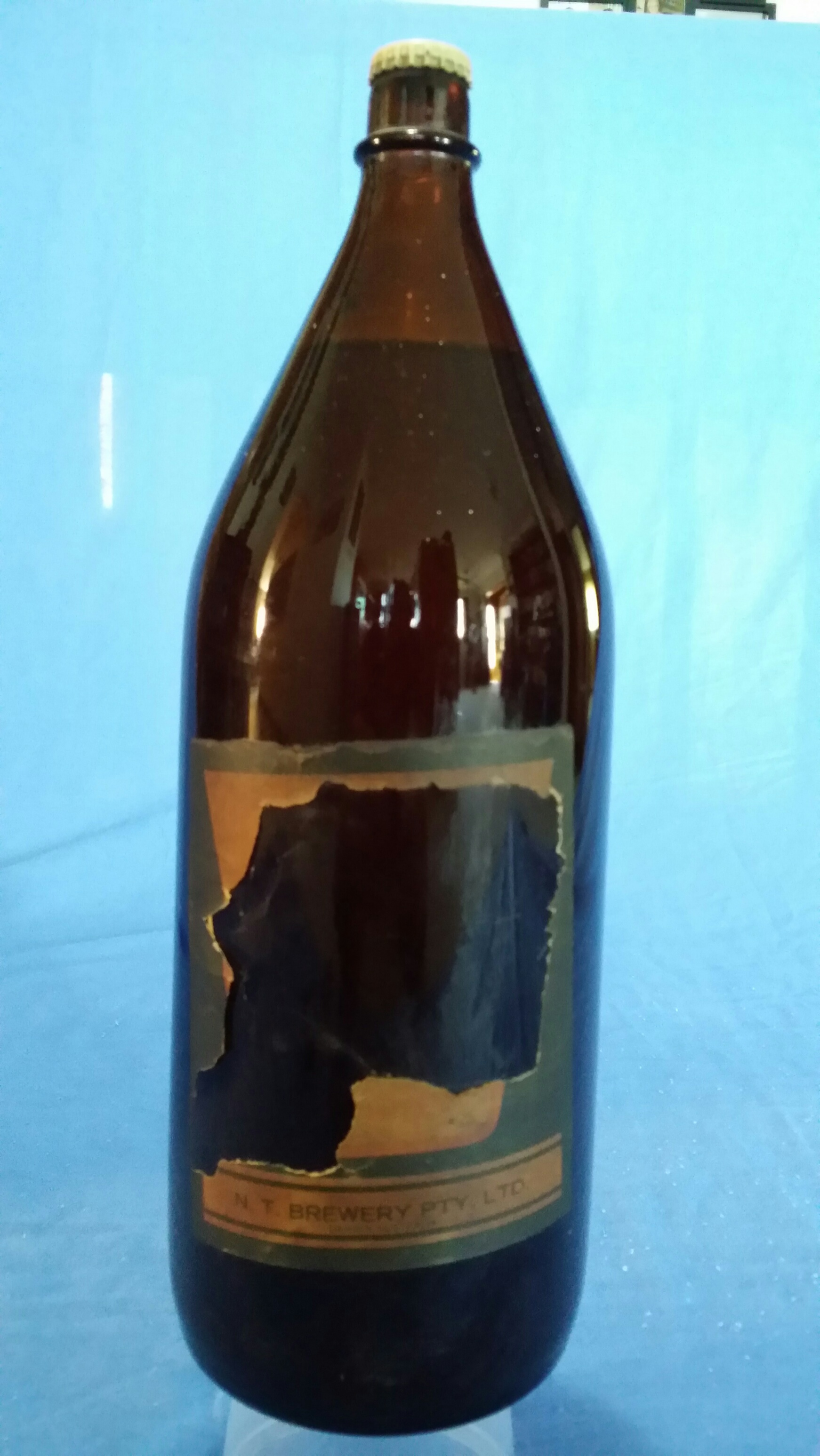 Early "Darwin stubby" beer bottle